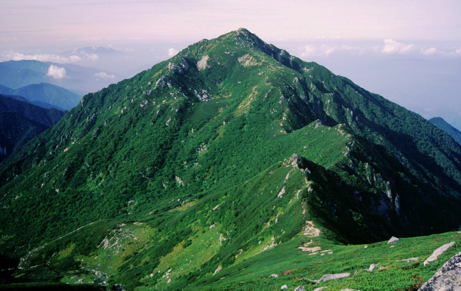 Mount Sannosawa seen from Mount Hoken